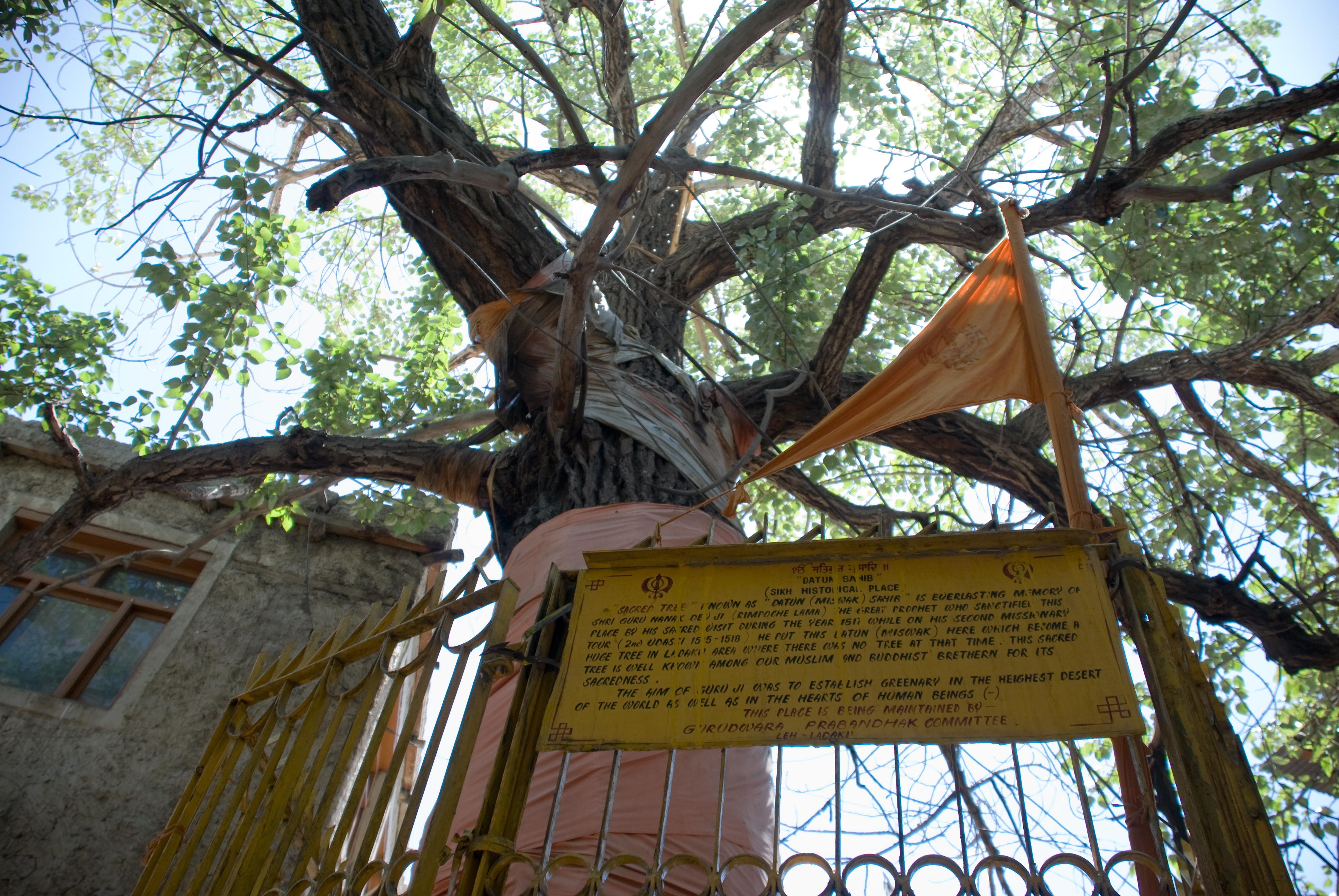 Written on the board: "Sacred Tree" known as "Datun (Miswak) Sahib" is everlasting memory of Shri Guru Nanak Dev Ji (Rimpoche Lama) the great prophet who sanctified this place during his sacred visit during the year 1517 while on his second missionary tour (2nd udassi 1515-1518). He put this datun (miswak) here which became a huge tree in Ladakh area where there was no tree at that time. This sacred tree is well known among our Muslim and Buddhist brethren for its sacredness. The aim of Guru Ji was to establish greenery in the highest desert of the world as well as in the hearts of human beings.